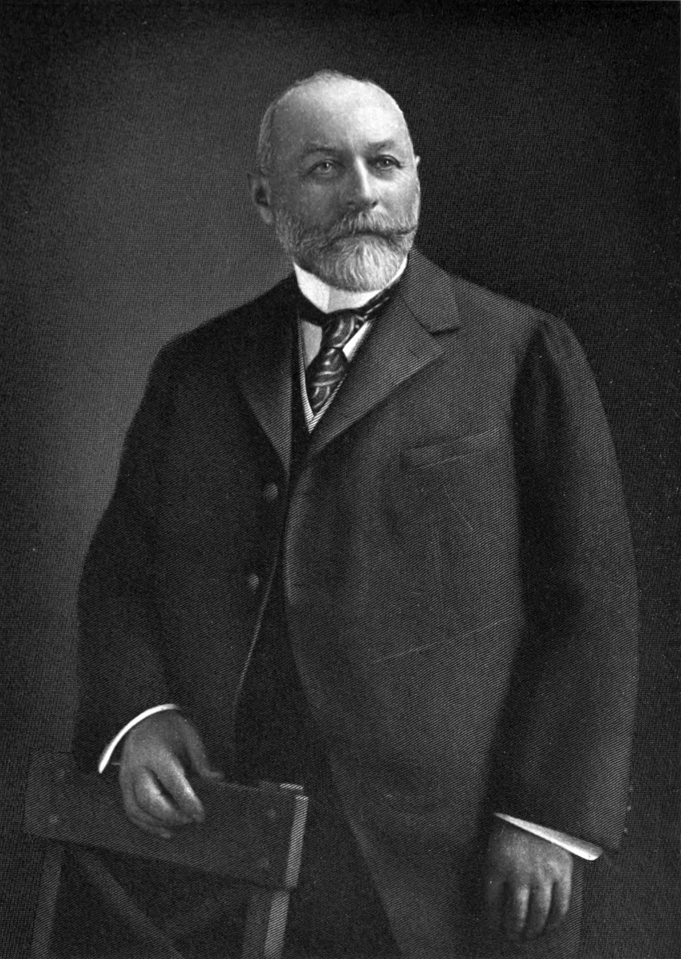 Engraved portrait of United States chemist Herman Frasch